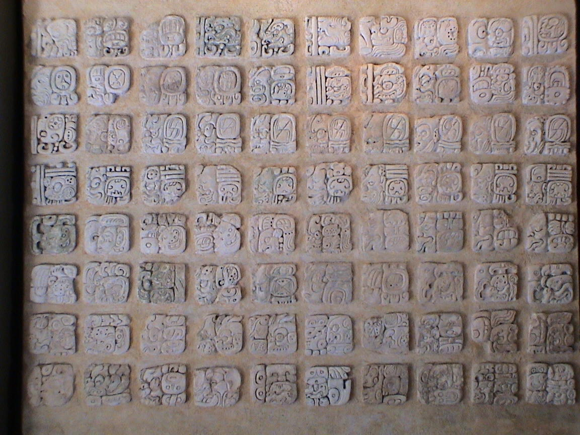 Museo del Sitio, Palenque. Stucco glyphs of Temple XVIII, most of which had fallen away from the wall, original reading order unknown